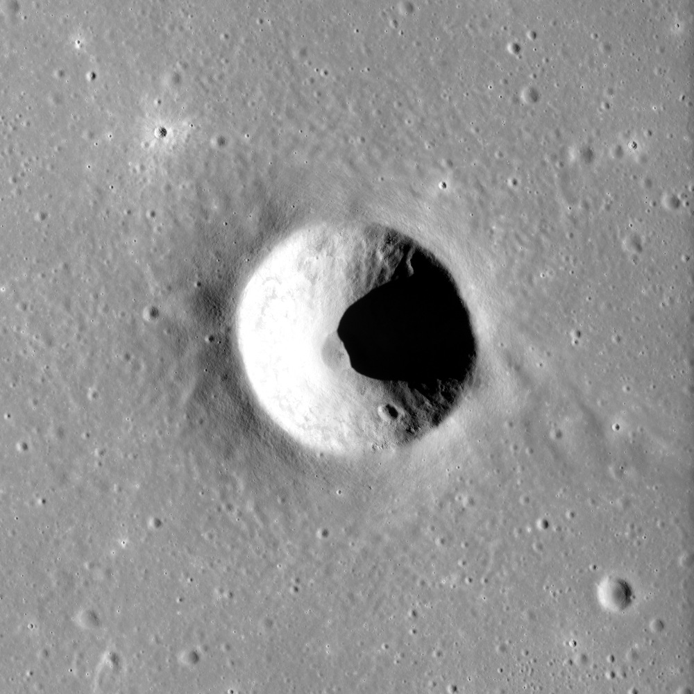 Slightly oblique view of Kuiper crater. Taken by Apollo 16 panoramic camera.